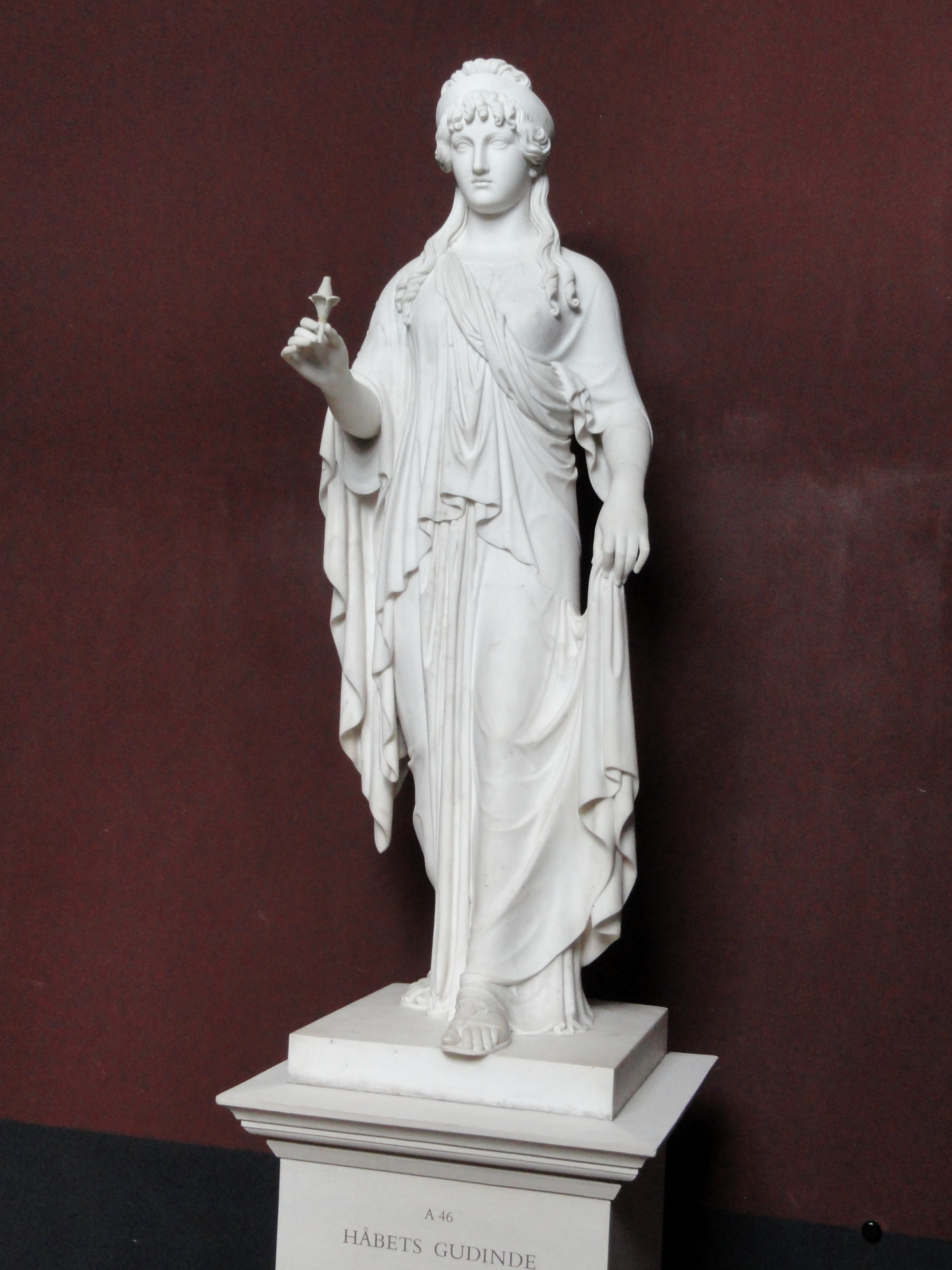 Sculpture in Thorvaldsens Museum, Copenhagen, Denmark. Sculptor: Bertel Thorvaldsen (c. 1770-1844). This artwork is now in the public domain because the artist died more than 70 years ago.